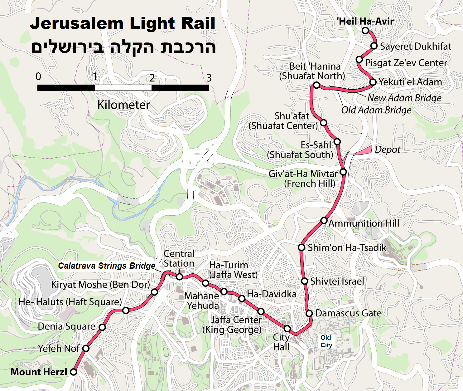 Map of the Jerusalem Light Rail